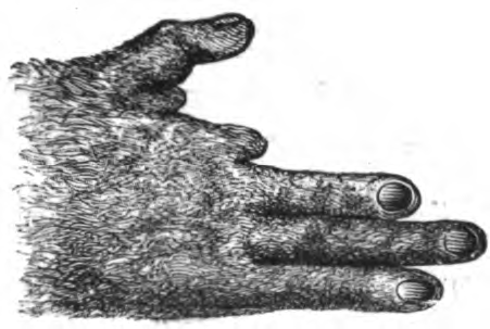 Caption: "Hand of the Potto (Perodictus), from life."